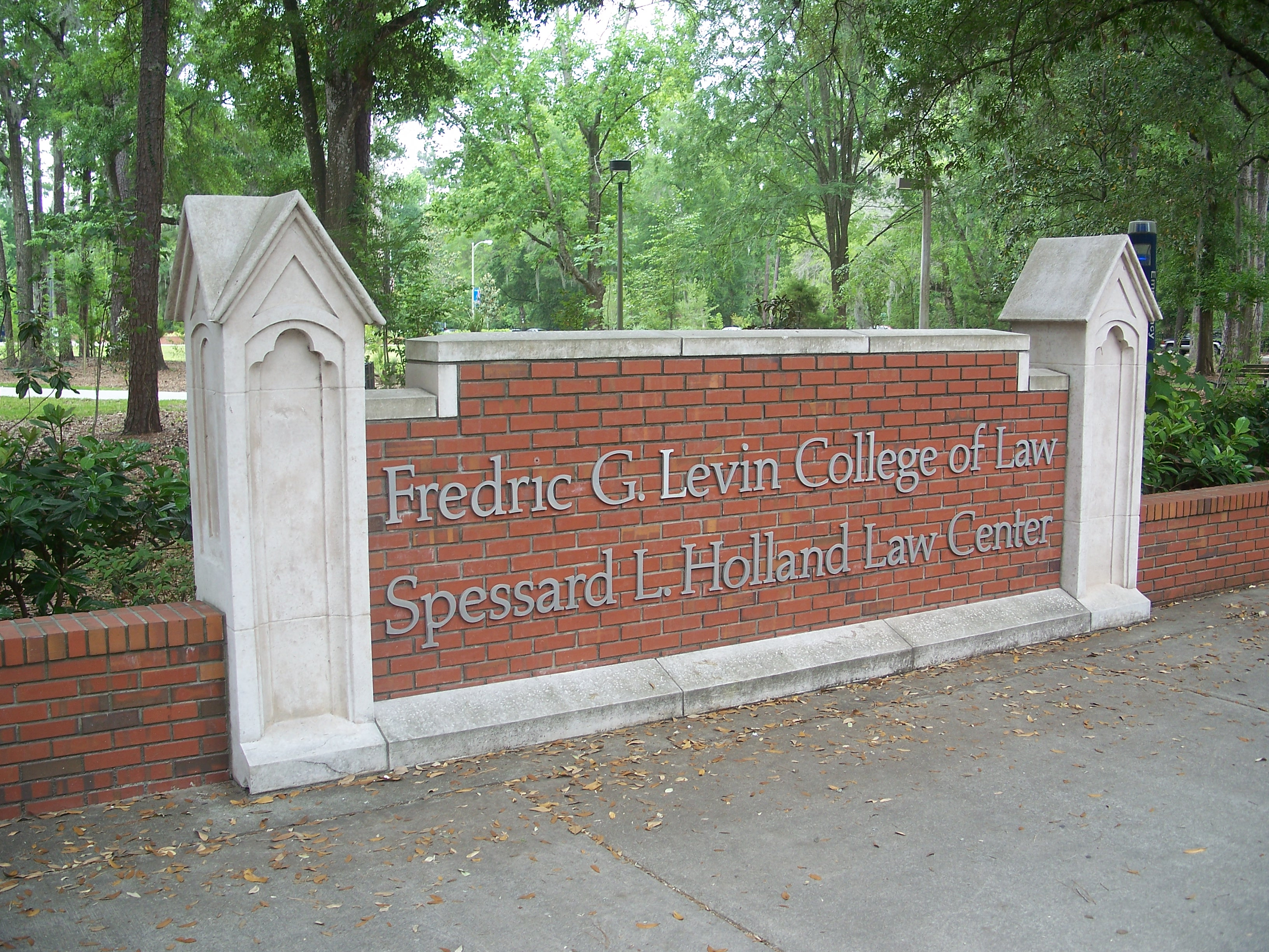 Gainesville, Florida: University of Florida: Levin College of Law sign